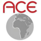 Logo of ACE Consortium